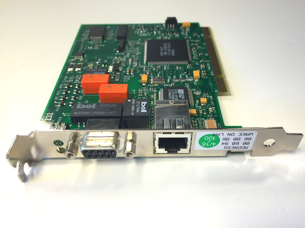 A picture of the IBM management token ring adapter; featuring speeds of up to 100 megabits.